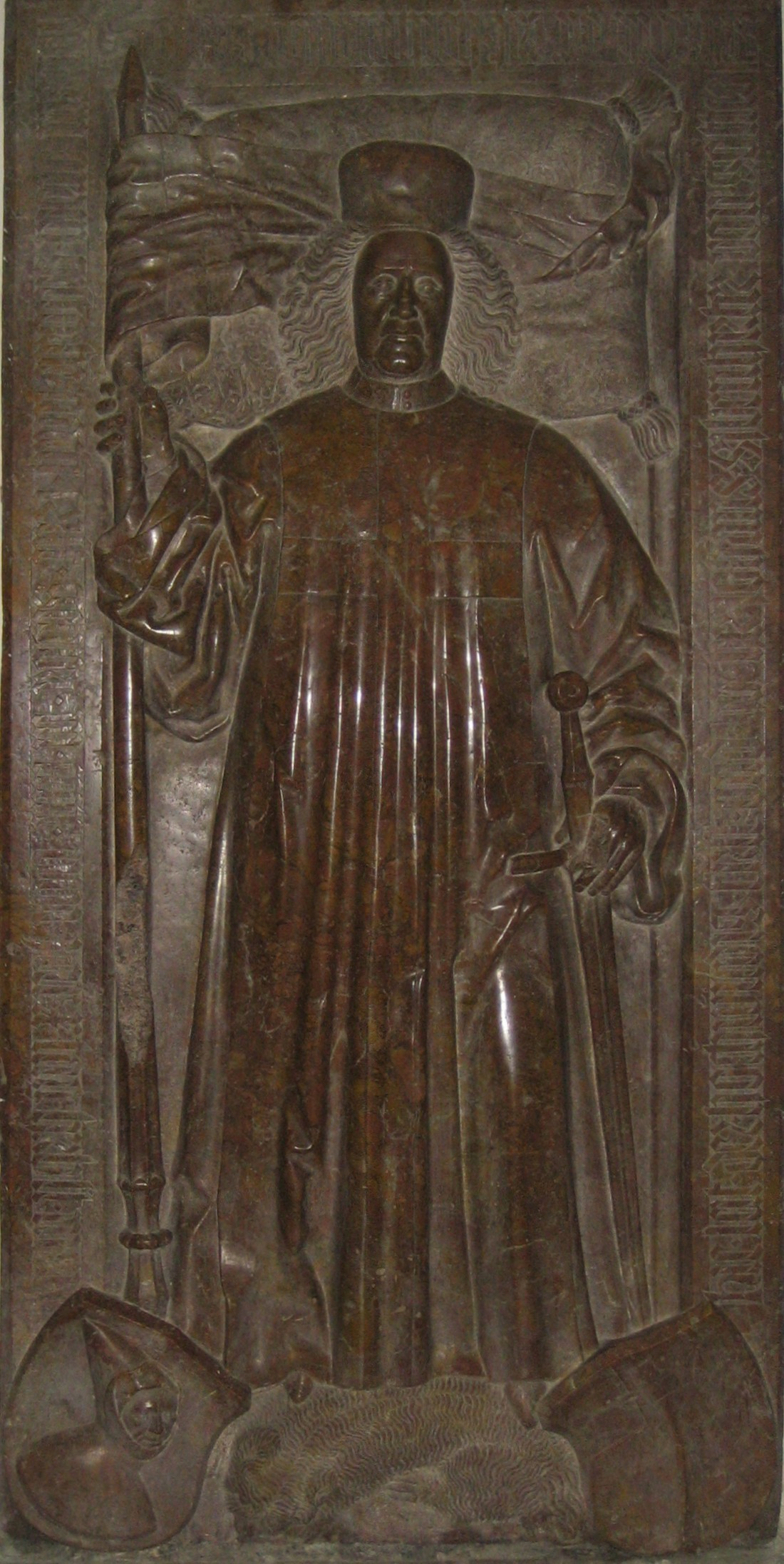 Gravestone of Johann Siebenhirter in the monestry of Millstatt / district Spittal an der Drau in Carinthia / Austria / European Union.